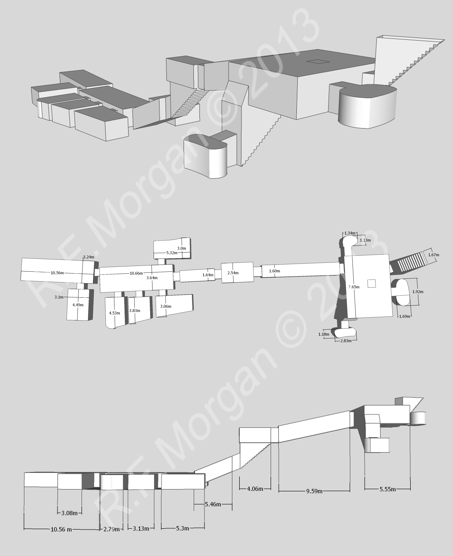 Isometric, plan and elevation images of KV12 taken from a 3d model